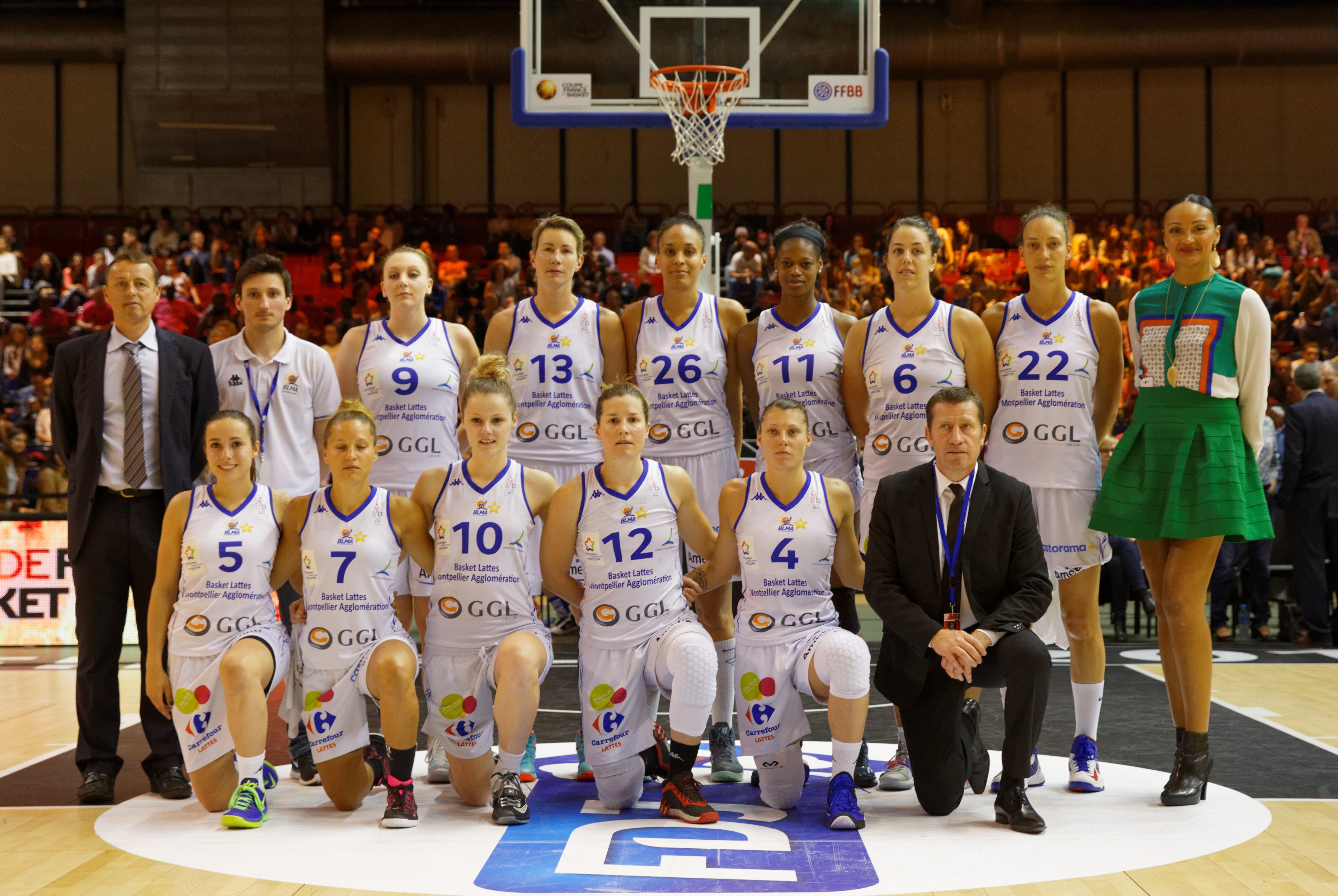 Final of the French Basketball Cup, Lattes-Montpellier vs Bourges, 2nd May 2015.